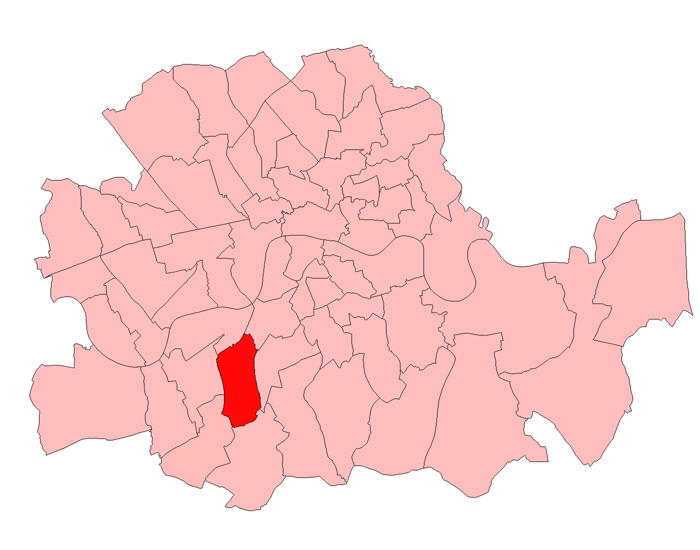 A map of Clapham constituency within the London County Council area, as it existed 1918-49.